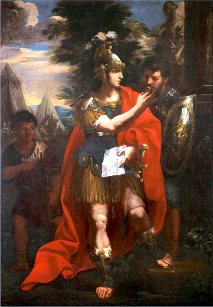 Alexander and Hephaestion.